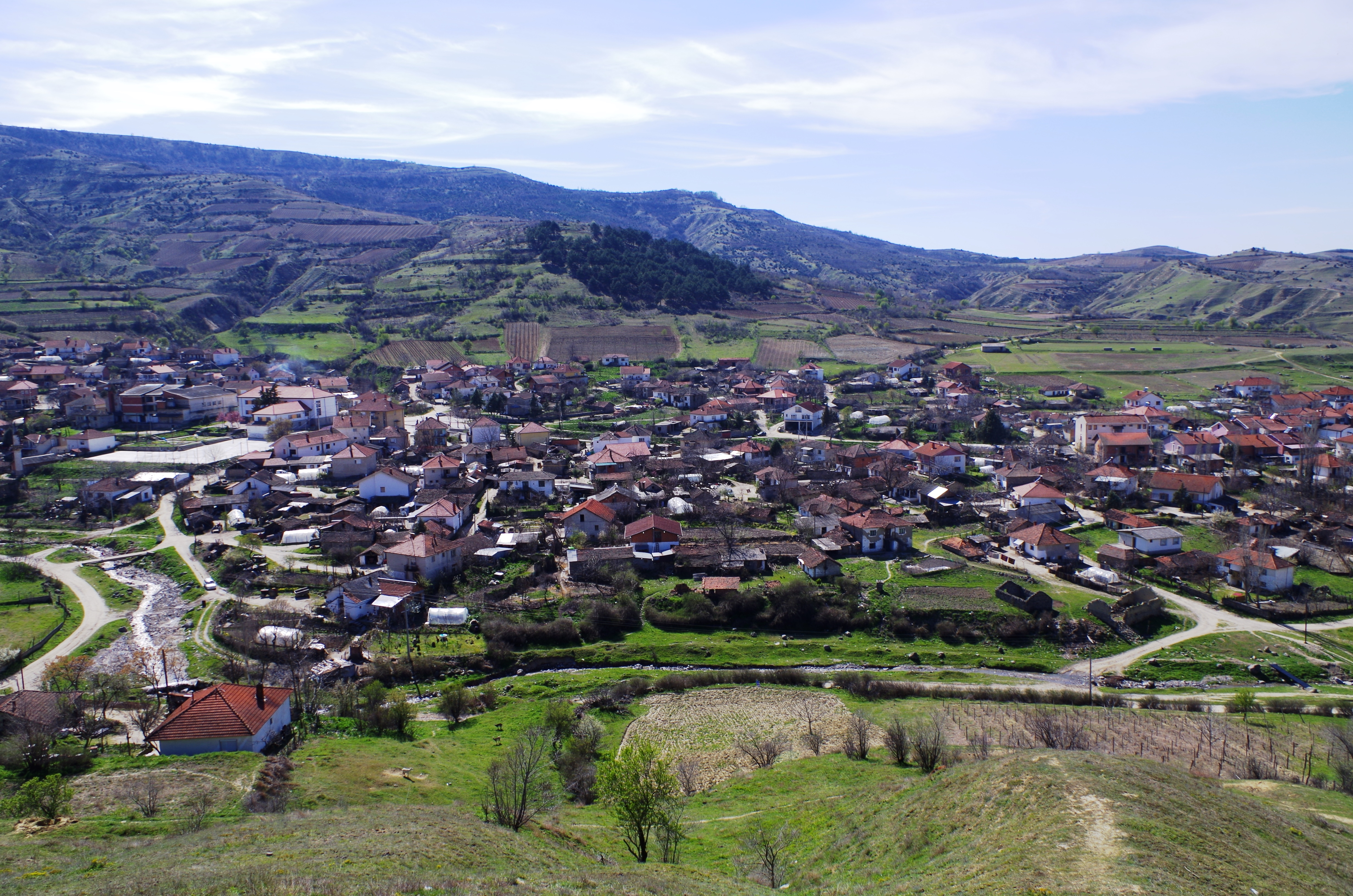 View of the village Dolni Disan